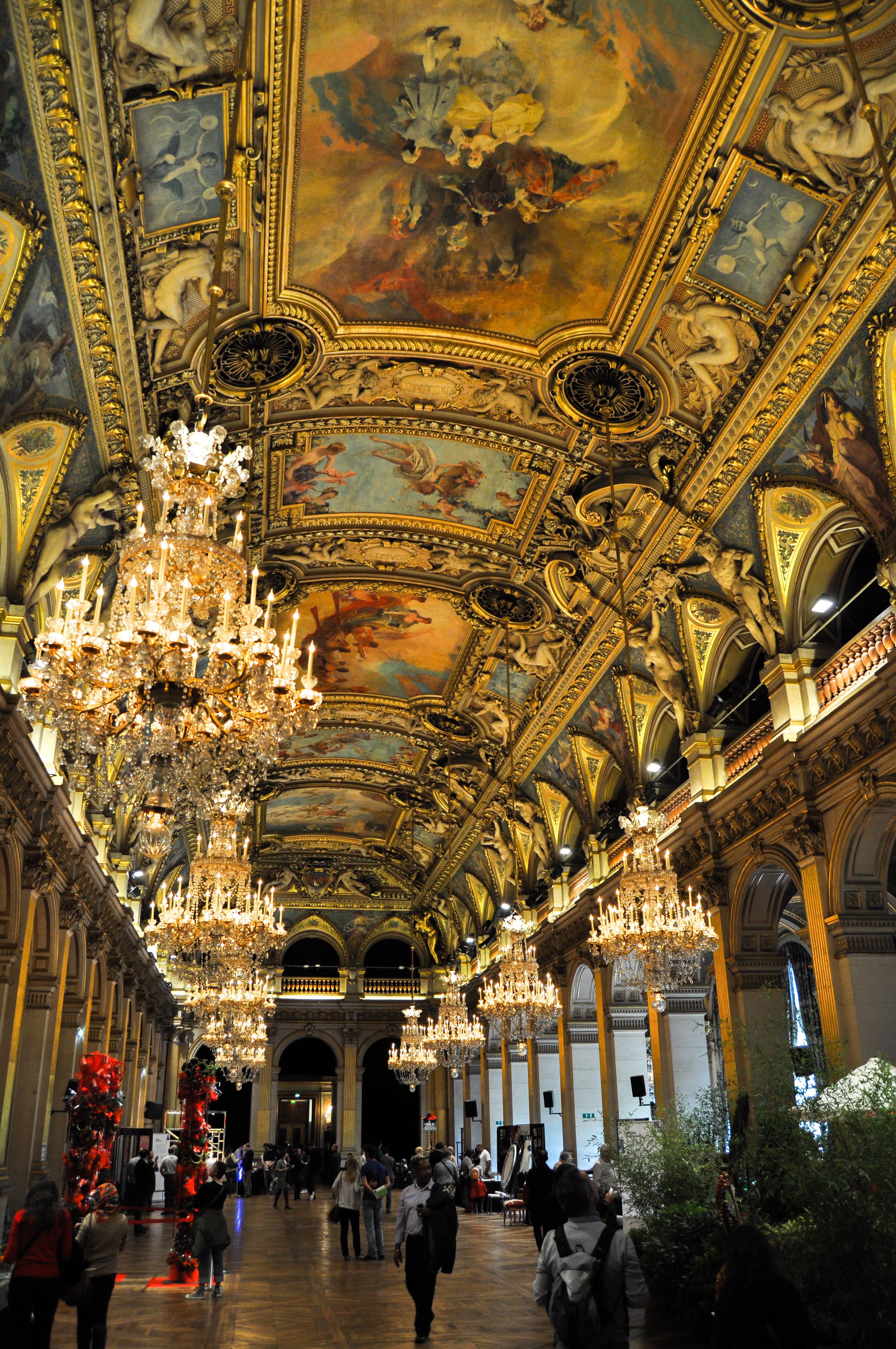 Paris City Hall, European Heritage Day, September 2013.